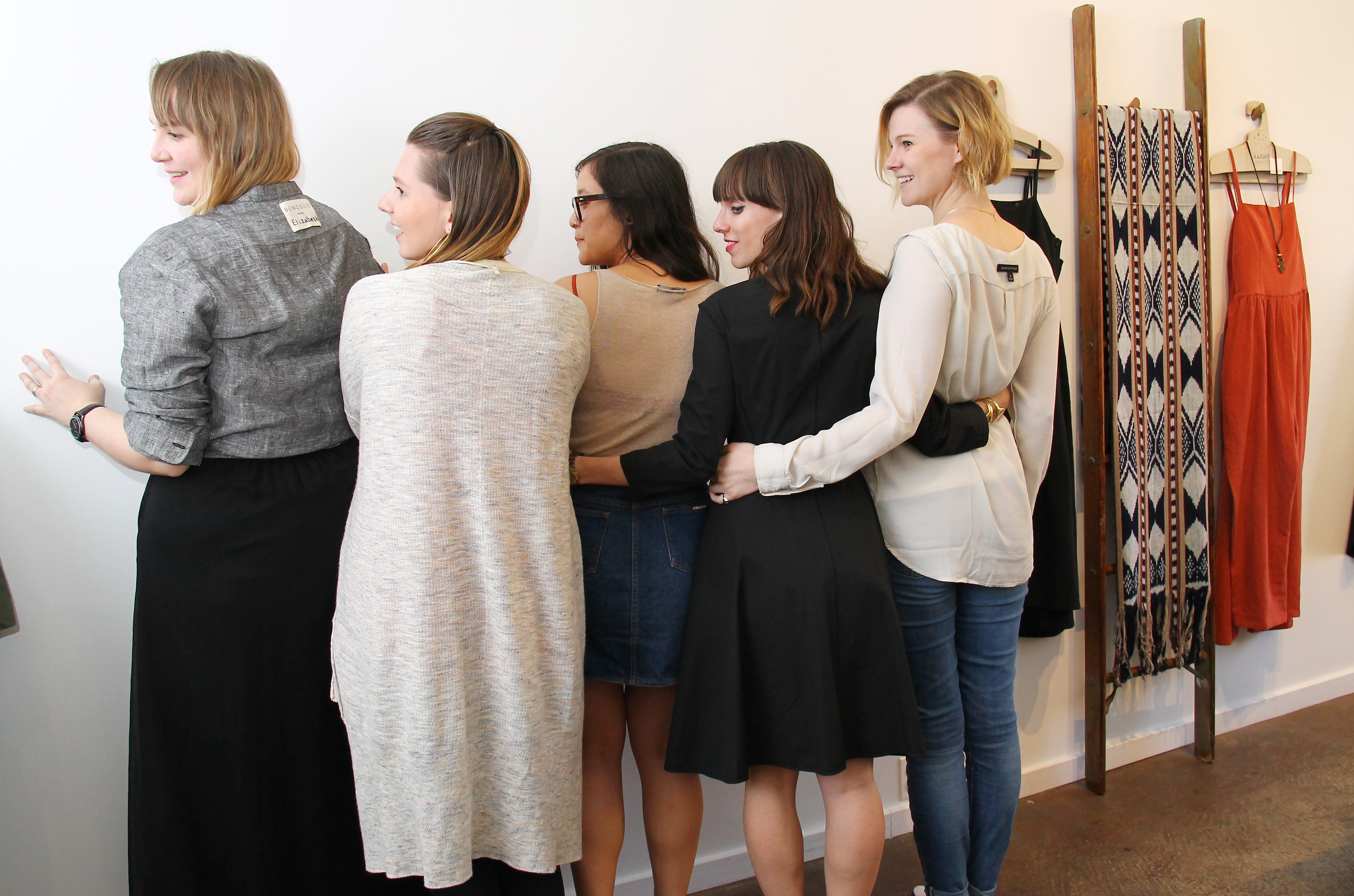 Women wear clothing with tags inside out as part of the movement against fast fashion.